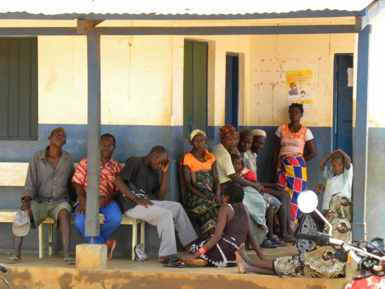 People gather outside clinic. From the GiveWell visit to NGO Village Reach in Pemba, Mozambique and surrounding areas. February 2010. More information.